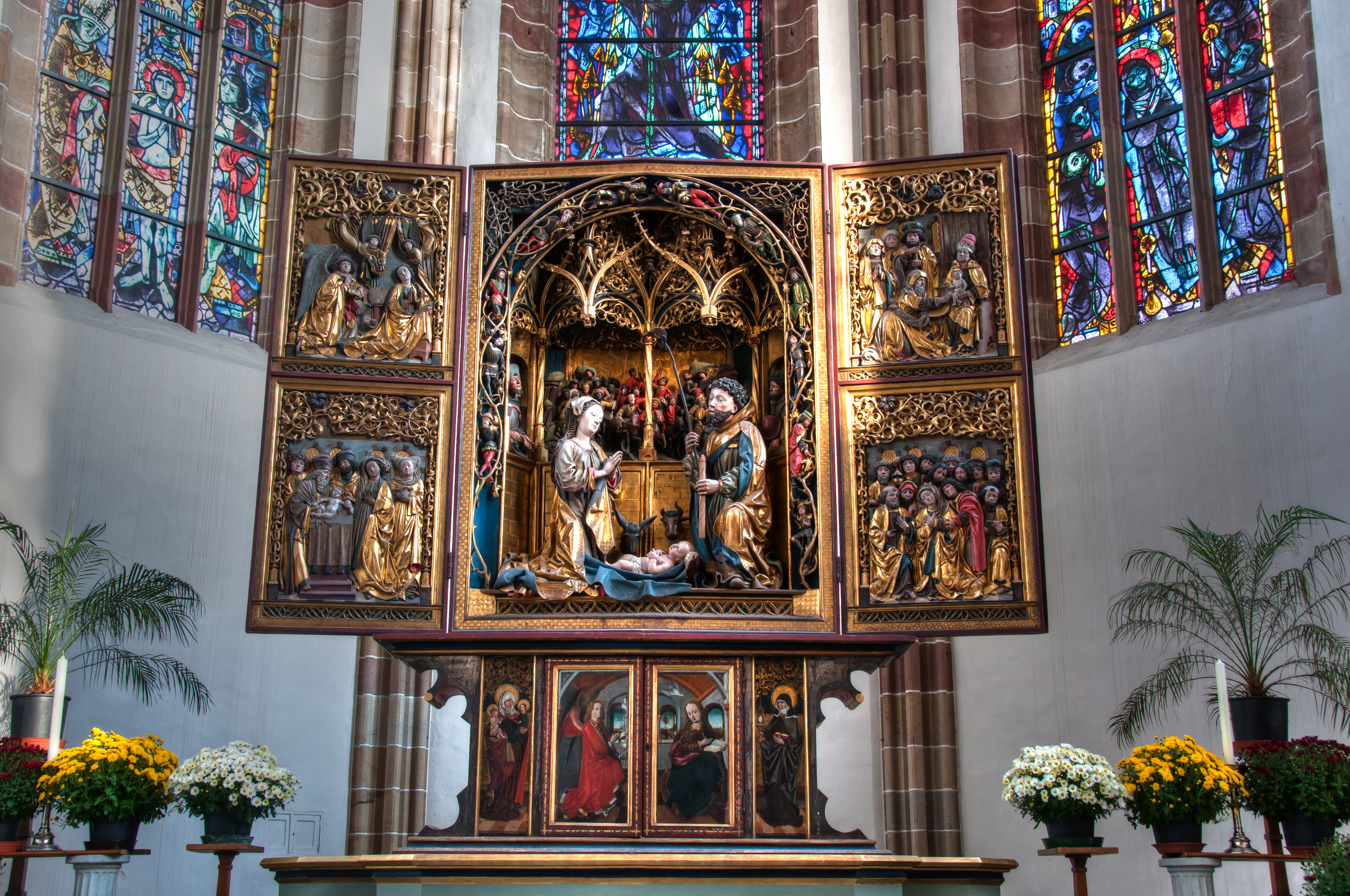 Franciscan's Church Bolzano / Bozen